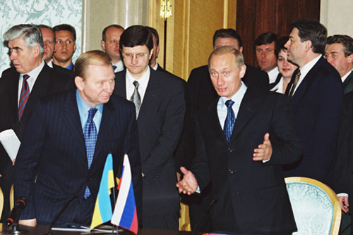 THE PRESIDENT HOTEL, MOSCOW. President Putin with Ukrainian President Leonid Kuchma before a meeting with Russian and Ukrainian businessmen and bankers.